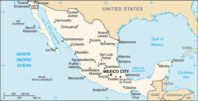 Map of Mexico.